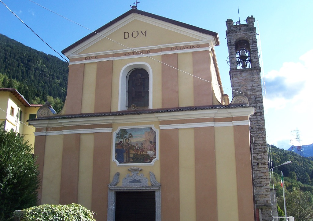 Church, Zazza, Val Camonica